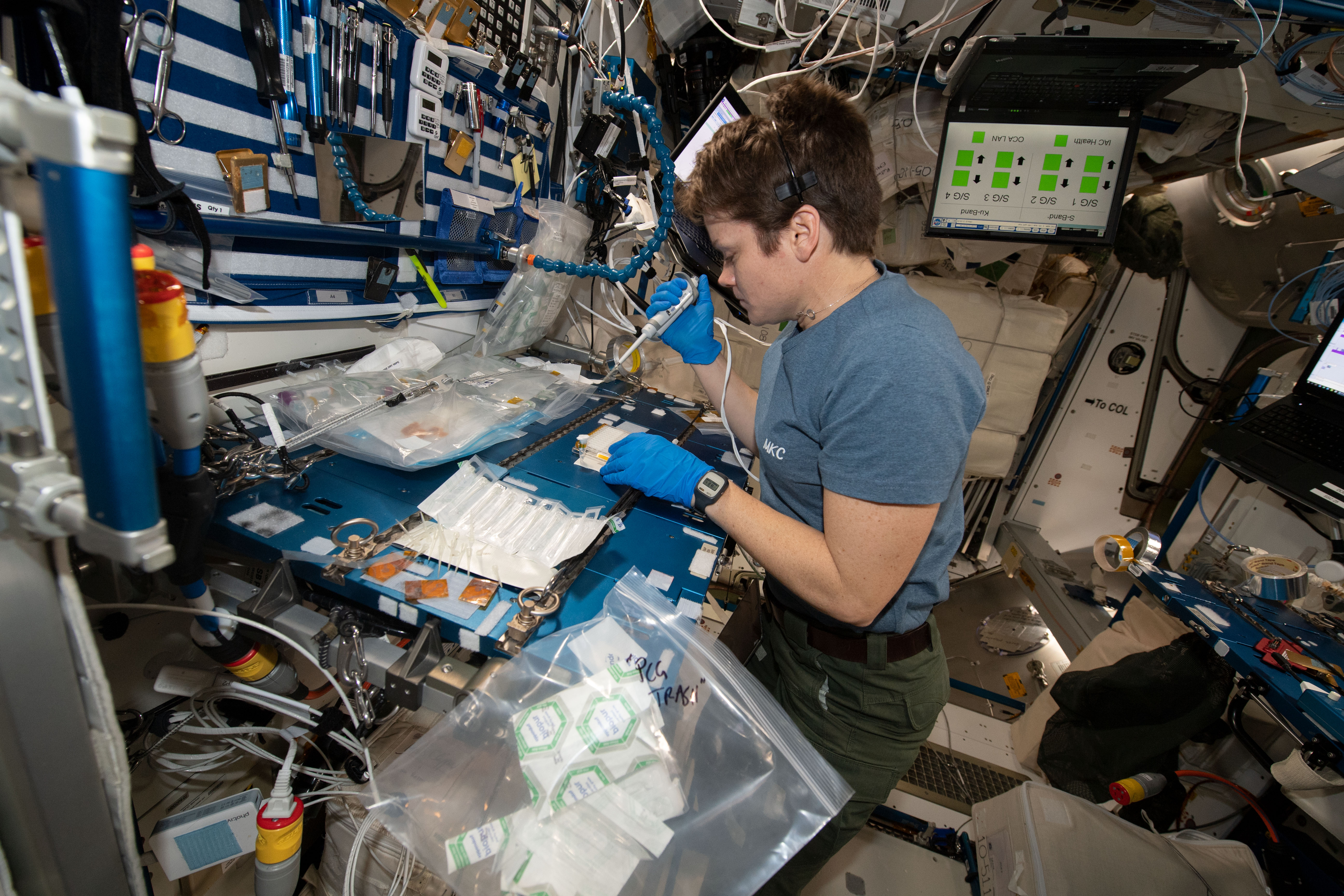 NASA astronaut and Expedition 58 Flight Engineer Anne McClain works inside the Unity Harmony module conducting research operations for the Protein Crystal Experiment-16 that is exploring therapies for Parkinson's disease.